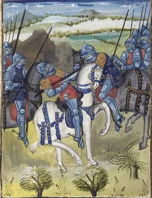 Death of Ptolemy Keraunos, 15th c. Medieval Manuscript France.